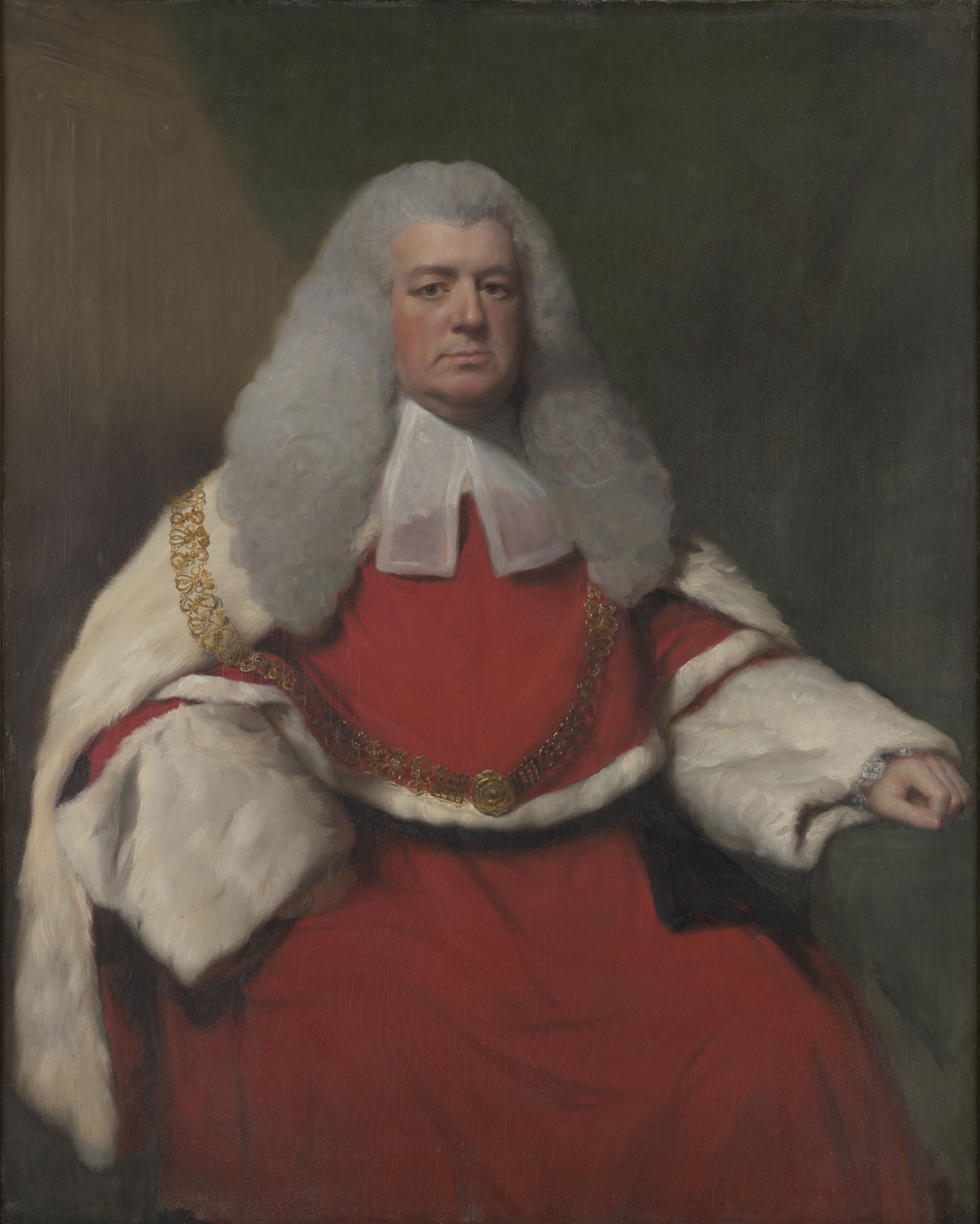 Portrait of Sir James Eyre (1734-1799), Chief Justice of the Common Pleas